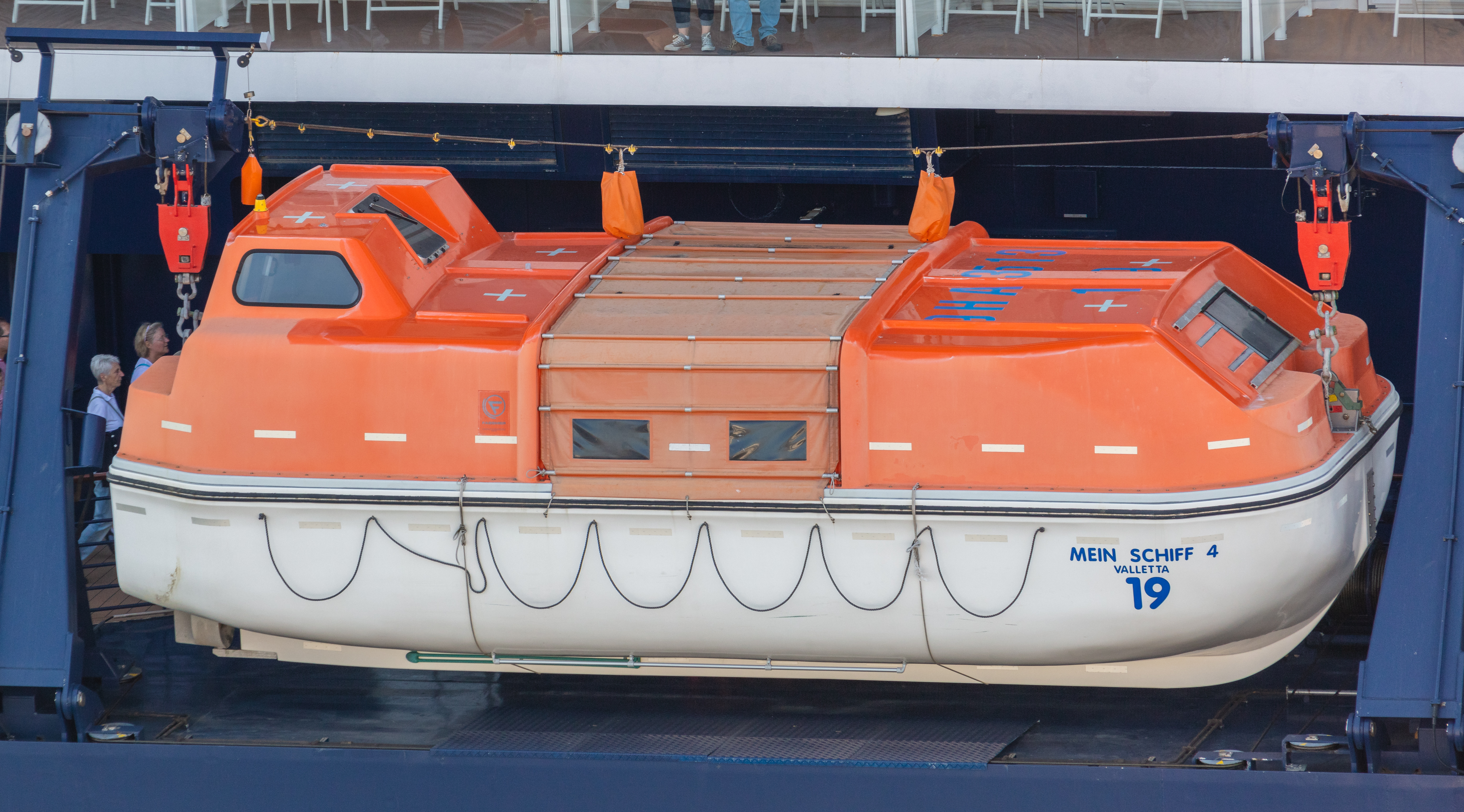 Lifeboat of ship Schiff 4, Kiel, Germany